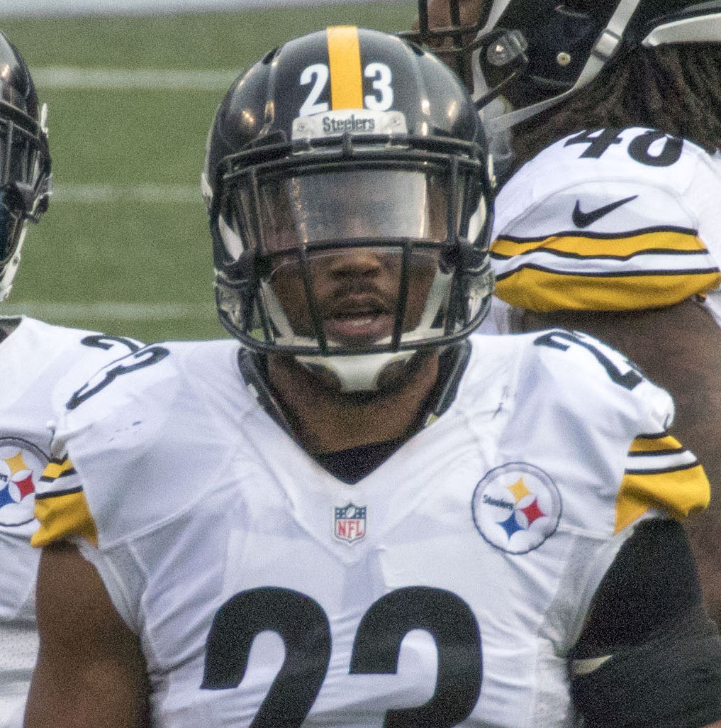 Pittsburgh Steelers safety, Mike Mitchell, playing against the Baltimore Ravens on December 27, 2015.